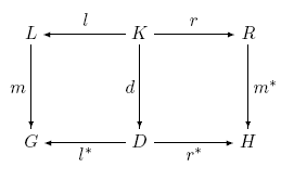 Double Pushout Diagram Algebraic Graph Rewriting.